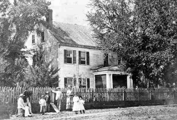 Leader: kmKa0c Fixed field data: kgbz Fixed field data: 990115s1880 in d key: AAI-4233 Local call number: PR08639 Title: [Pinehill Plantation : Leon County, Florida] [picture] Publication info: 1880. Physical descrip: 1 photonegative : b&w ; 3 x 5 in. Series Title: (Print collections.) General Note: Third from right is Susan Bradford. Personal subject: Eppes, Susan Bradford, 1846-1942. Subject term: Children--Florida--Leon County. Subject term: Women--Florida--Leon County. Subject term: Men--Florida--Leon County. Geographic term: Pinehill Plantation (Leon County, Fla.)